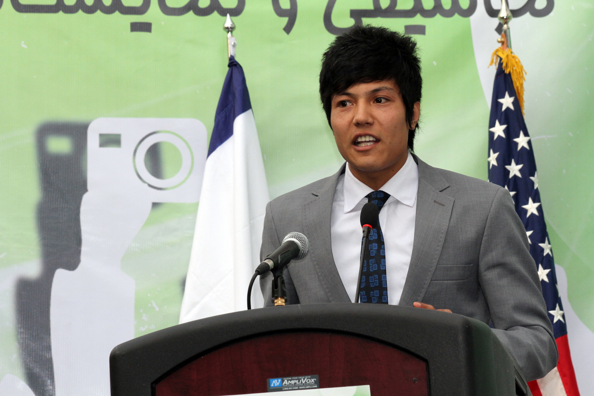 Rohullah Nikpai speaking at the Afghan Youth Festival in Kabul, Afghanistan.